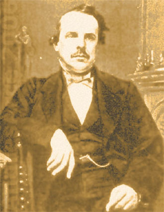 Portrait of Francis Stebbins Bartow seated and facing slightly right, Georgia Historical Society Collection of Photographs